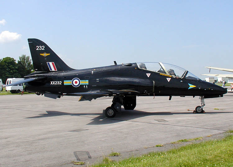 BAE Hawk T.1 (XX232), photographed at the Classic Jet preview day, Kemble Airfield, England, in June 2003. This is an aircraft from No. 208 Squadron RAF.